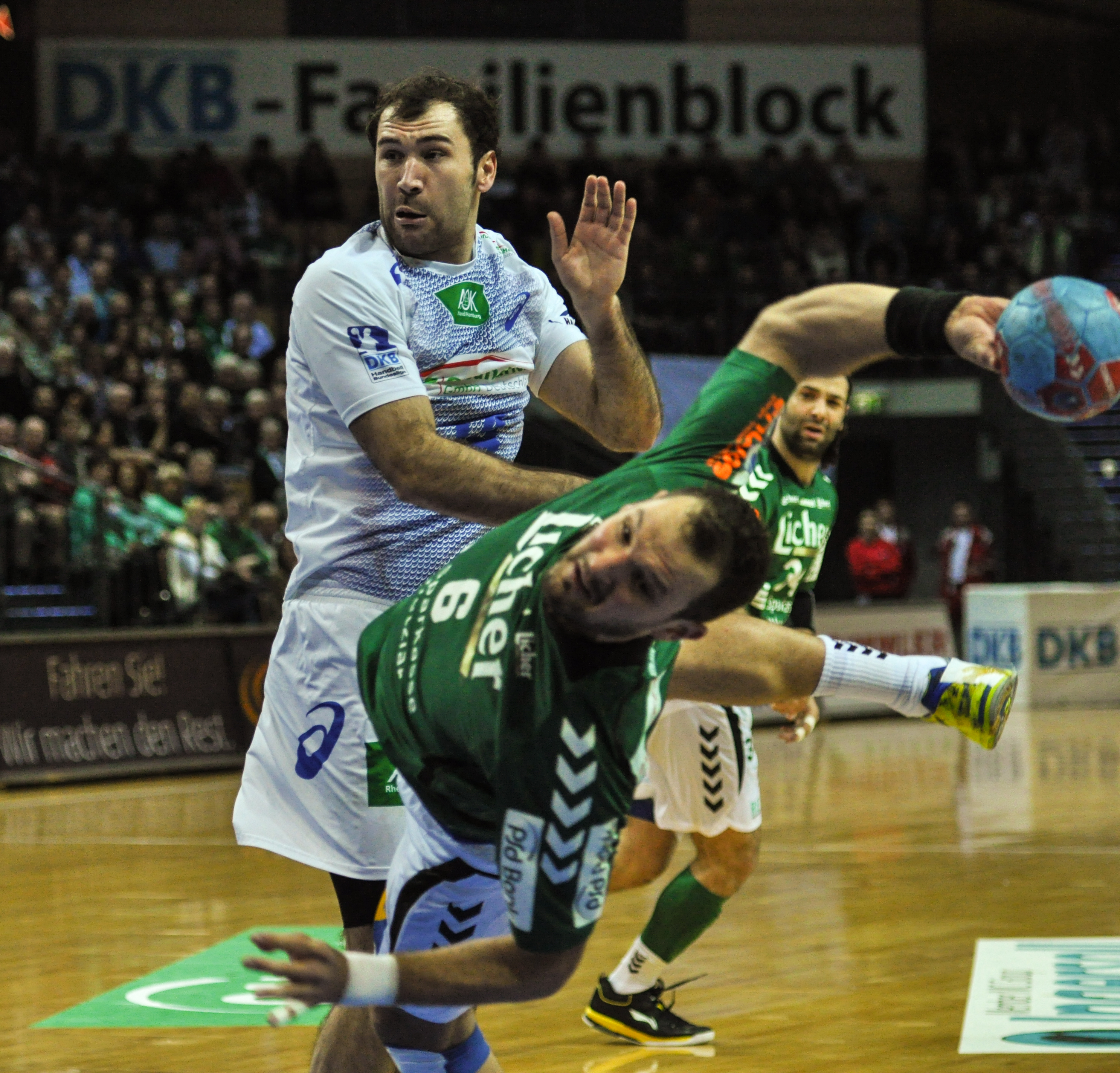 taken on February 8, 2014 during DKB Handball-Bundesliga match between HSG Wetzlar and HSV Hamburg